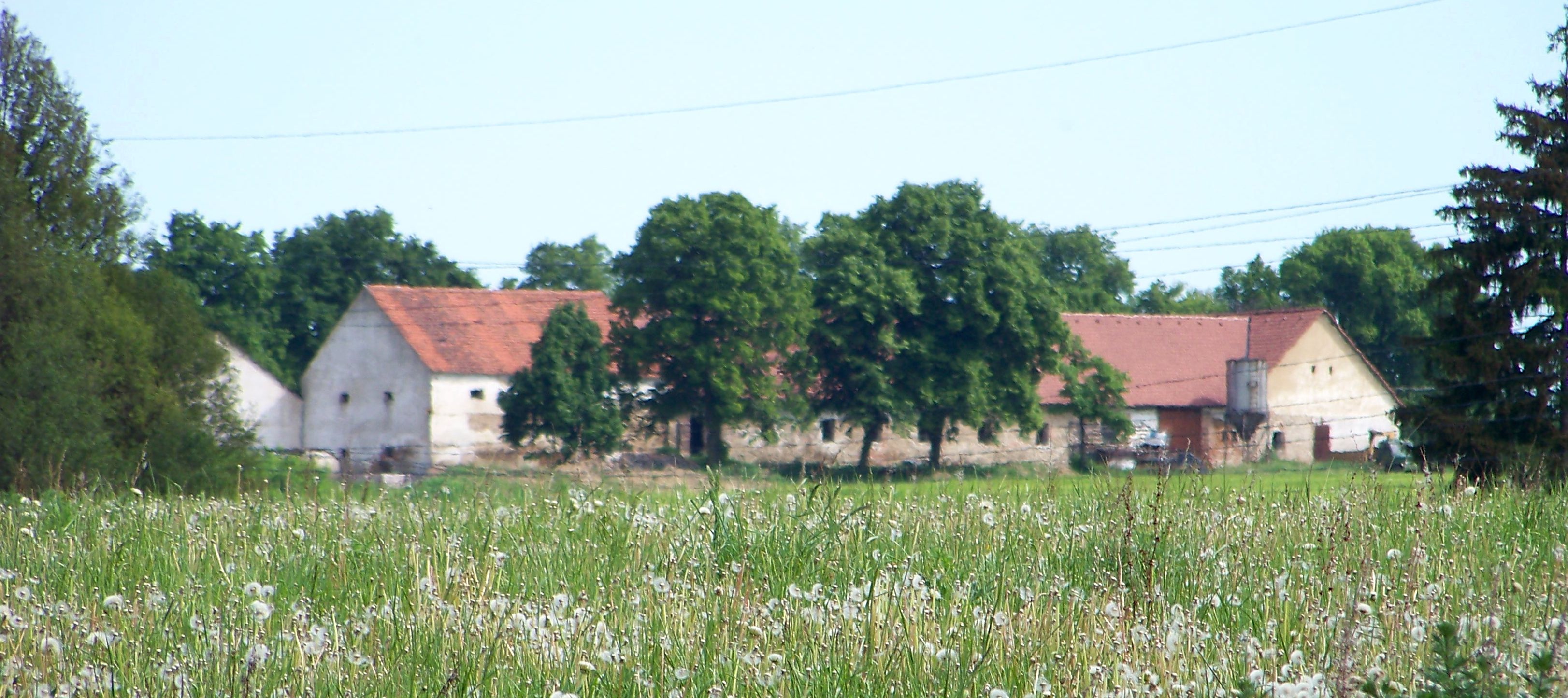 Chotoviny-Vrážná, Tábor District, South Bohemian Region, the Czech Republic.